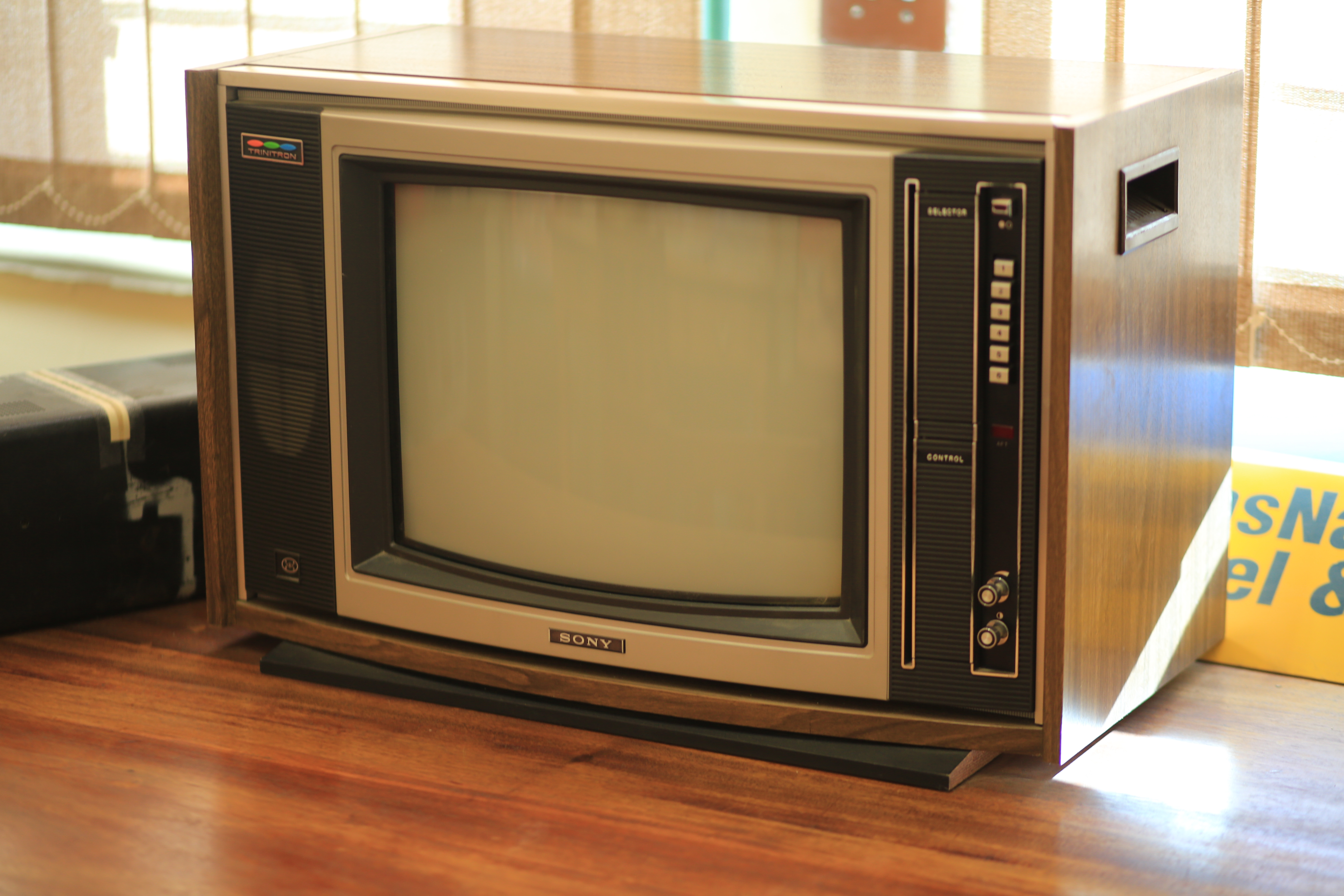 Windhoek train station